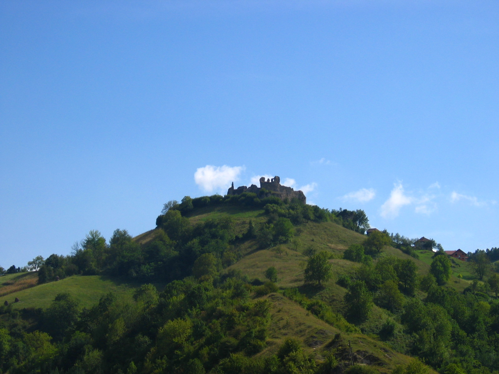 Bužim Castle seen from the town of Bužim in Western Bosnia-Herzegovina